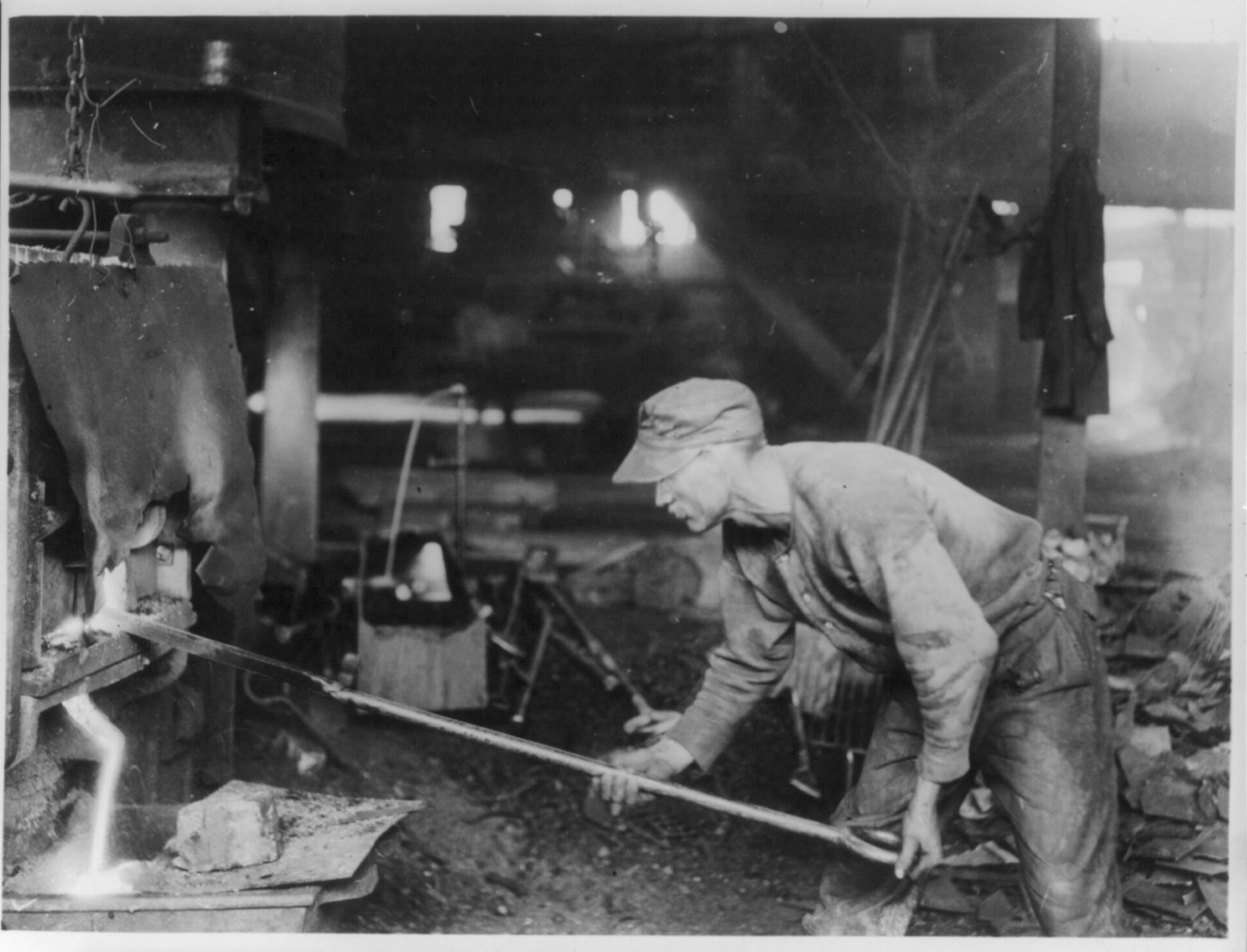 Title: The threatening big steel strike. A view of one of the strikers who is asking for more pay, at his work of puddling, where he is "working up" his "ball of iron" to be carried to the "squeezer" Abstract/medium: 1 photographic print.